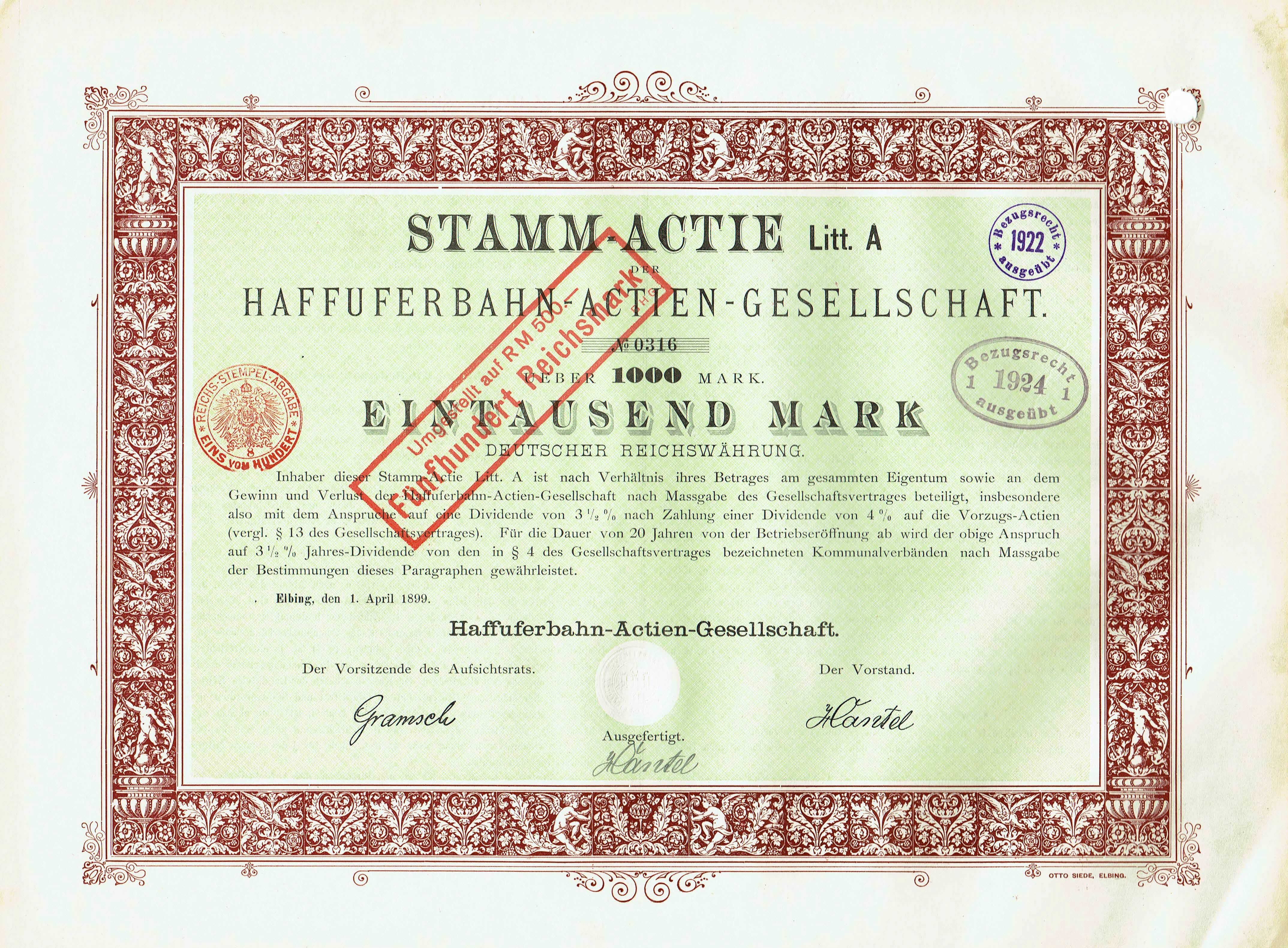 Share of the Haffuferbahn-AG, issued 1. April 1899